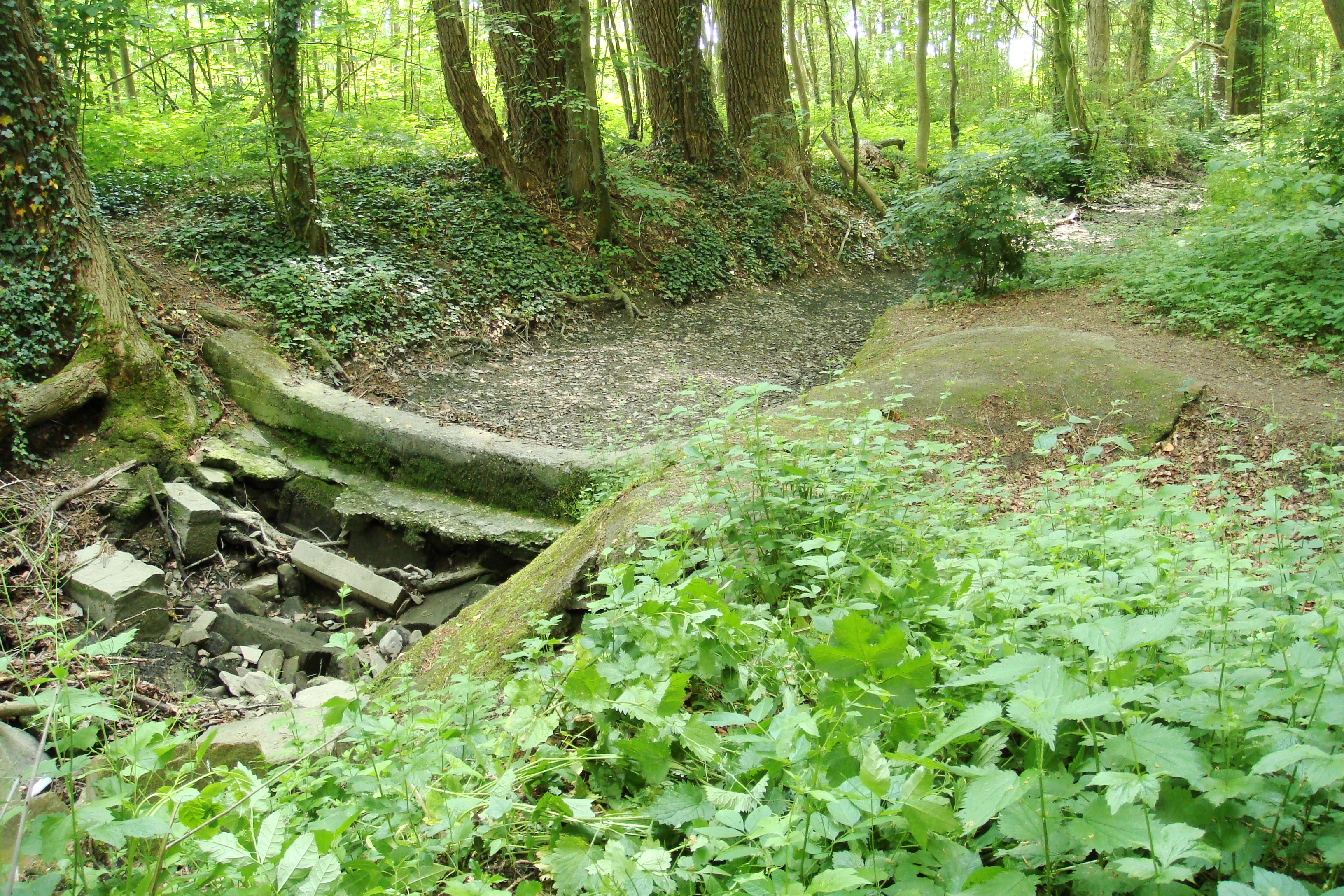 River Schledde at Stadtpark, Soest. The dam is part of the southern section of the river, that is falling dry during summer exept heavy rain is falling and the earth can't absorb all that water. First photo in a row of three, showing the condition two days before the mid sized thunder storm at 2016-05-30 came.